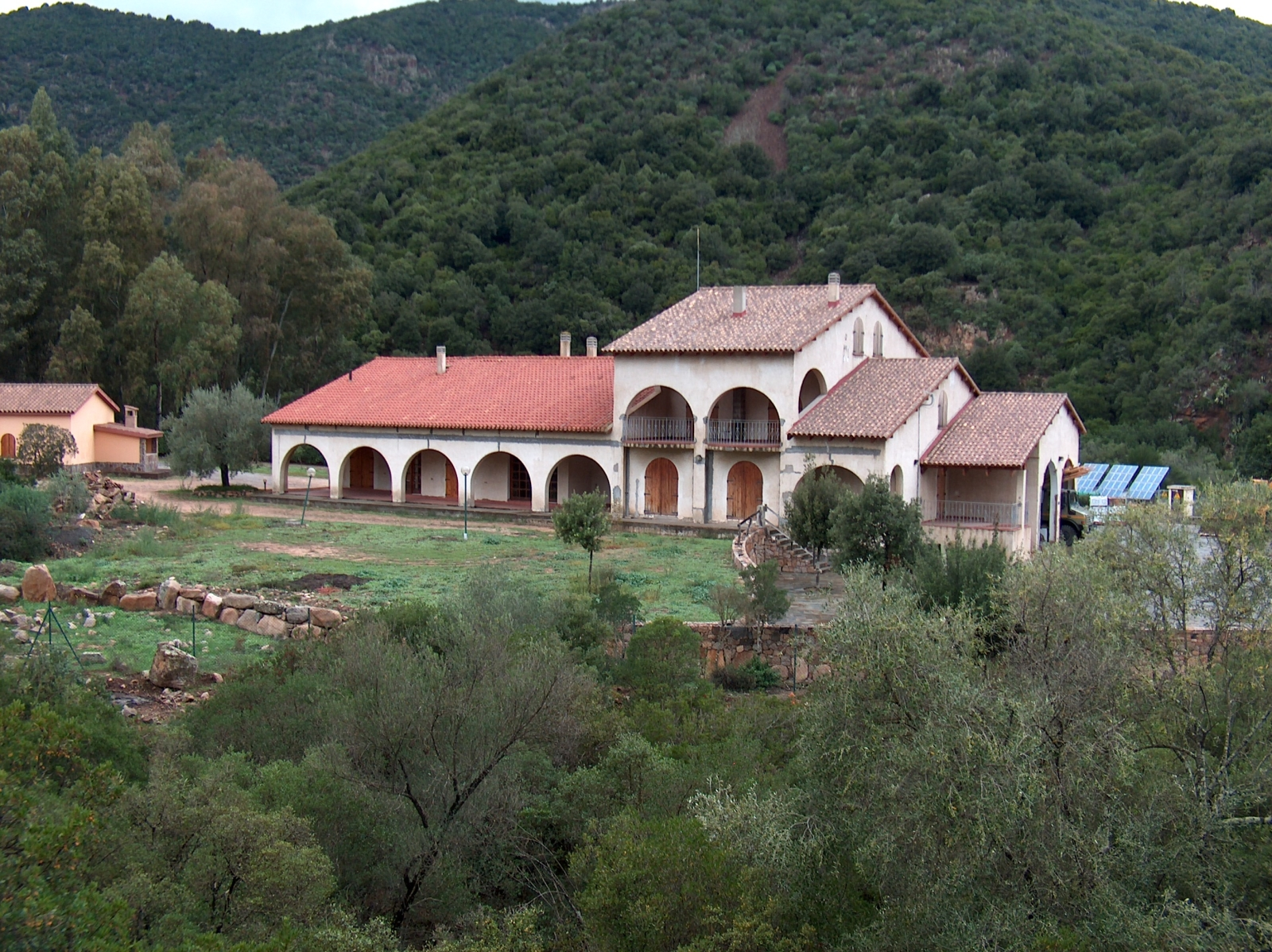 Forest of Gutturu Mannu: foresters' barracks